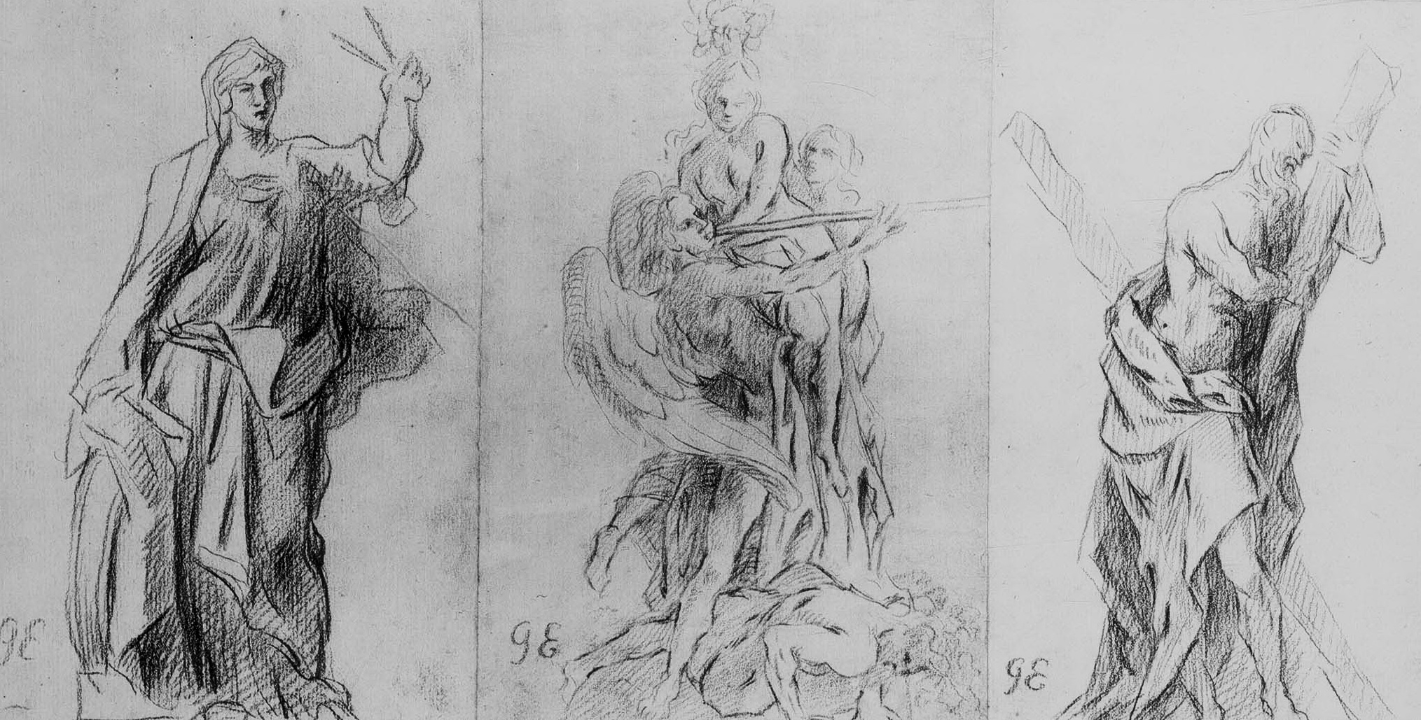 Sculptural designs by the Liège sculpture Guillaume Évrard during his Italian voyage (1738-1744). Collection of the Cabinet des estampes et des dessins de la Ville de Liège, now part of the Museum of Fine Arts in Liège, Belgium.